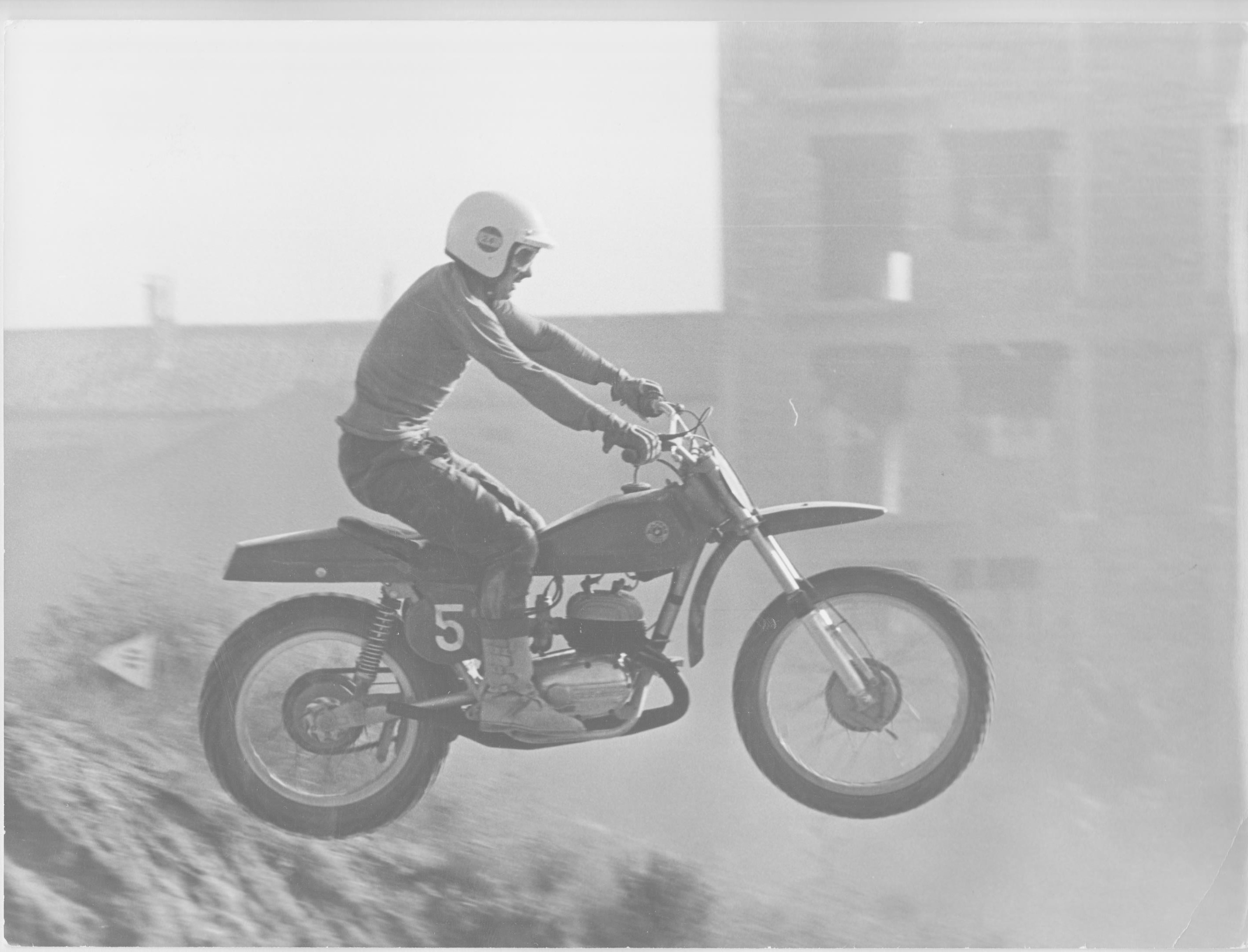 Domingo Gris at 1969 Burgos Motocross, at San Isidro